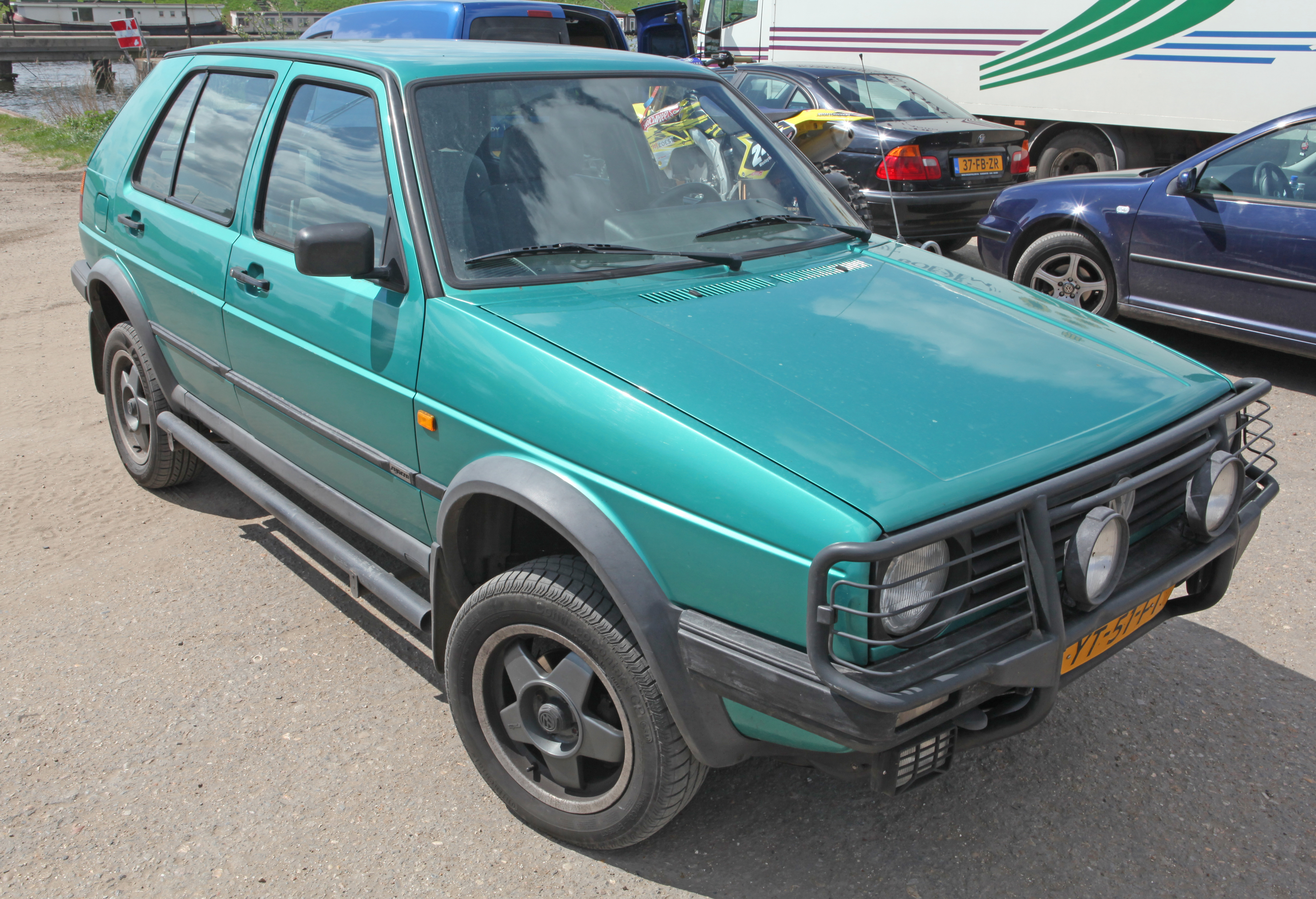 1990 Volkswagen Golf Country 4x4